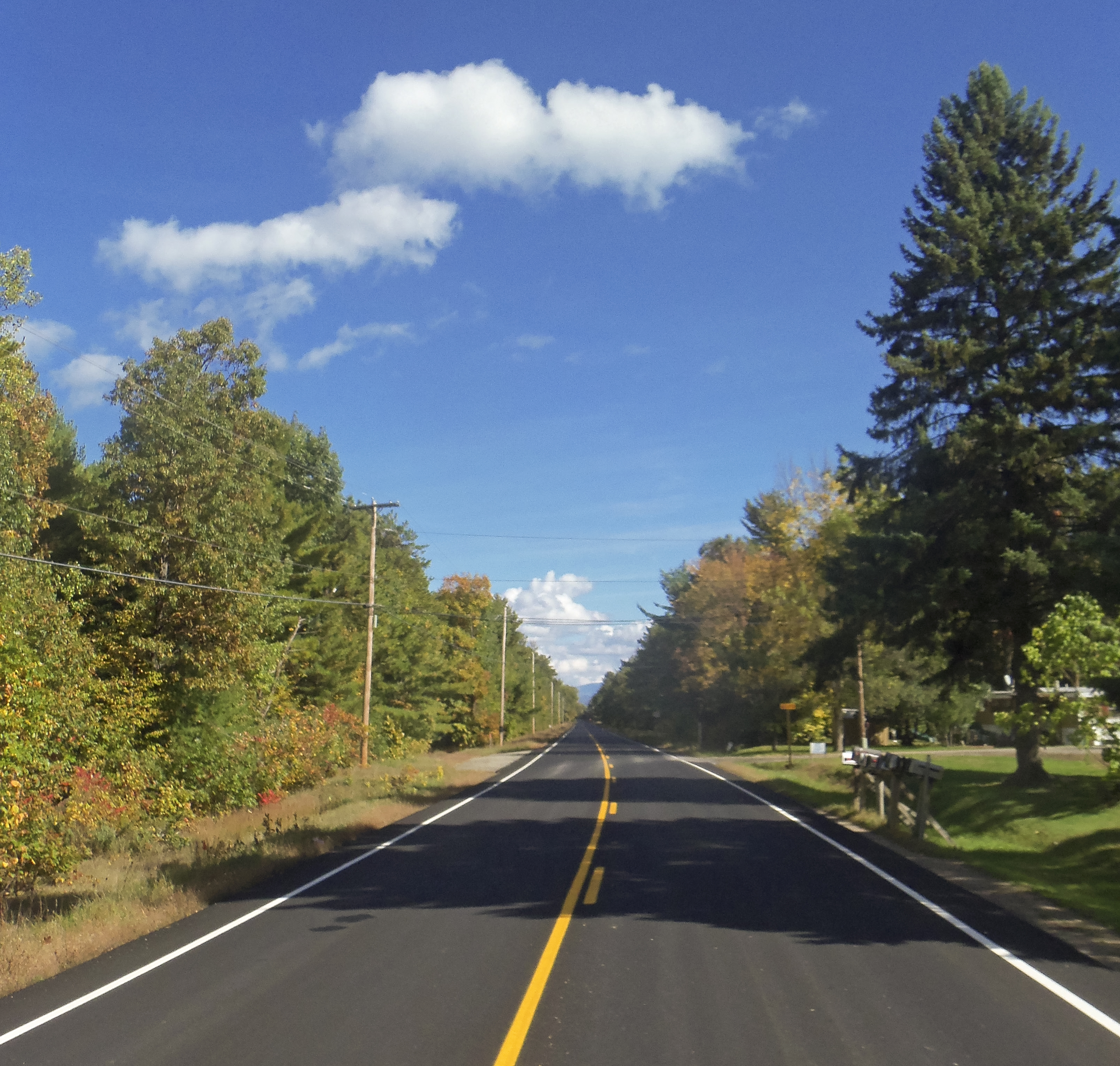 View east along New York State Route 373 from near western terminus